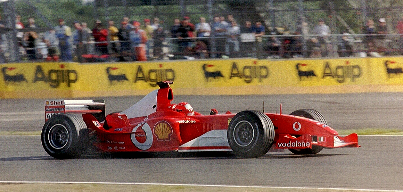 Michael Schumacher, driving his Marlboro Ferrari at the 2003 British Grand Prix.